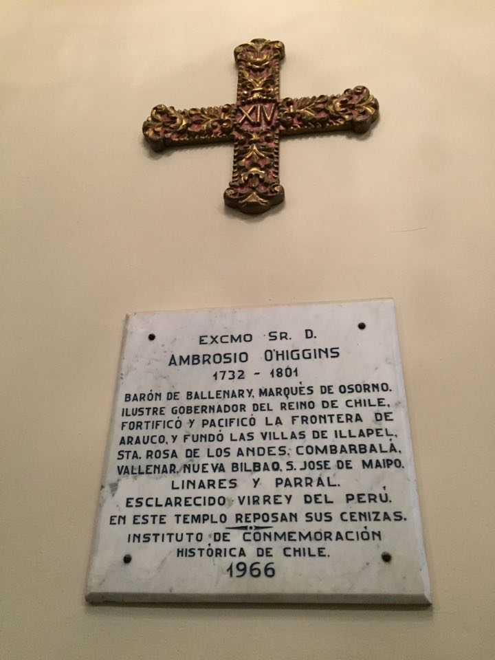 Plaque commemorating Ambrosio O'Higgins, 1st Marquis of Osorno, in his burial place, St. Peter's Church, Lima